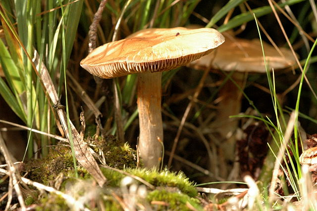 Cortinarius subbalaustinus from Commanster, Belgium. If you think this is a different taxon, please contact James Lindsey.